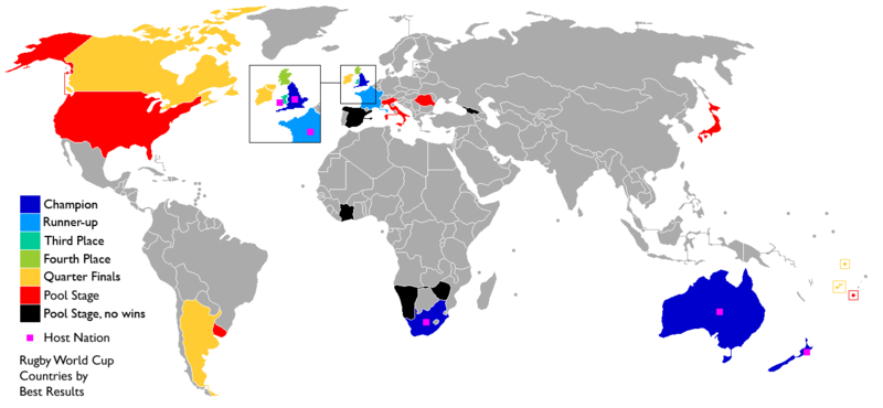 A map showing countries best results and host countries of the Rugby World Cup.